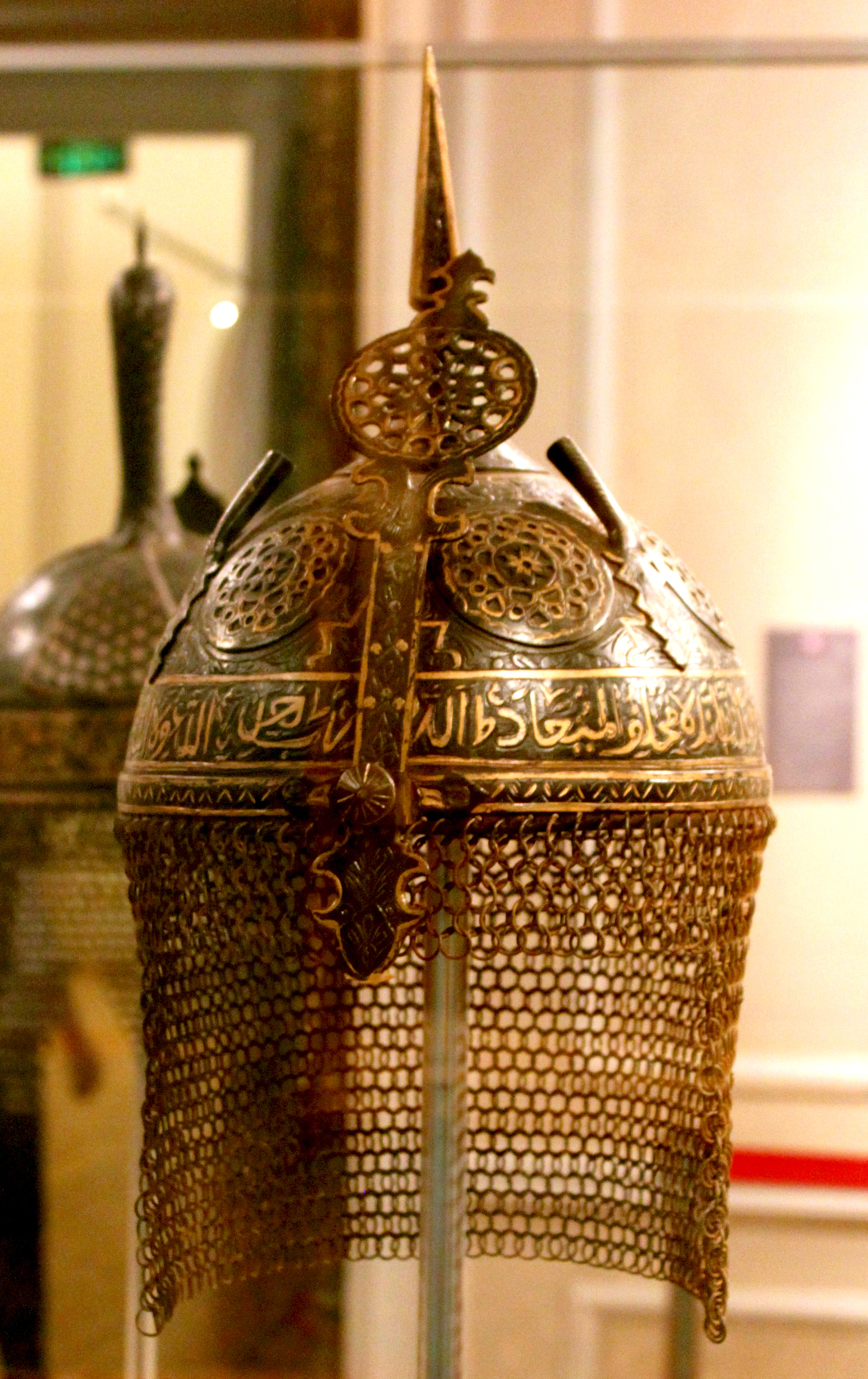 Medieval azerbaijani helmet (Safavid)